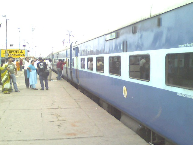 A long Distance express train at Tatanagar Junction.